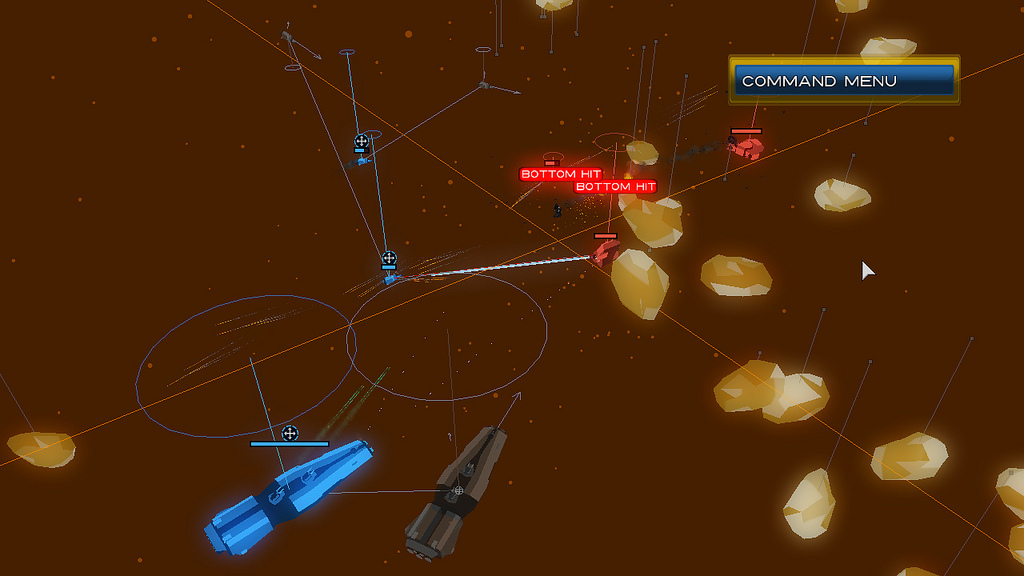 Screenshot of video game flotilla (2010) by Blendo Games